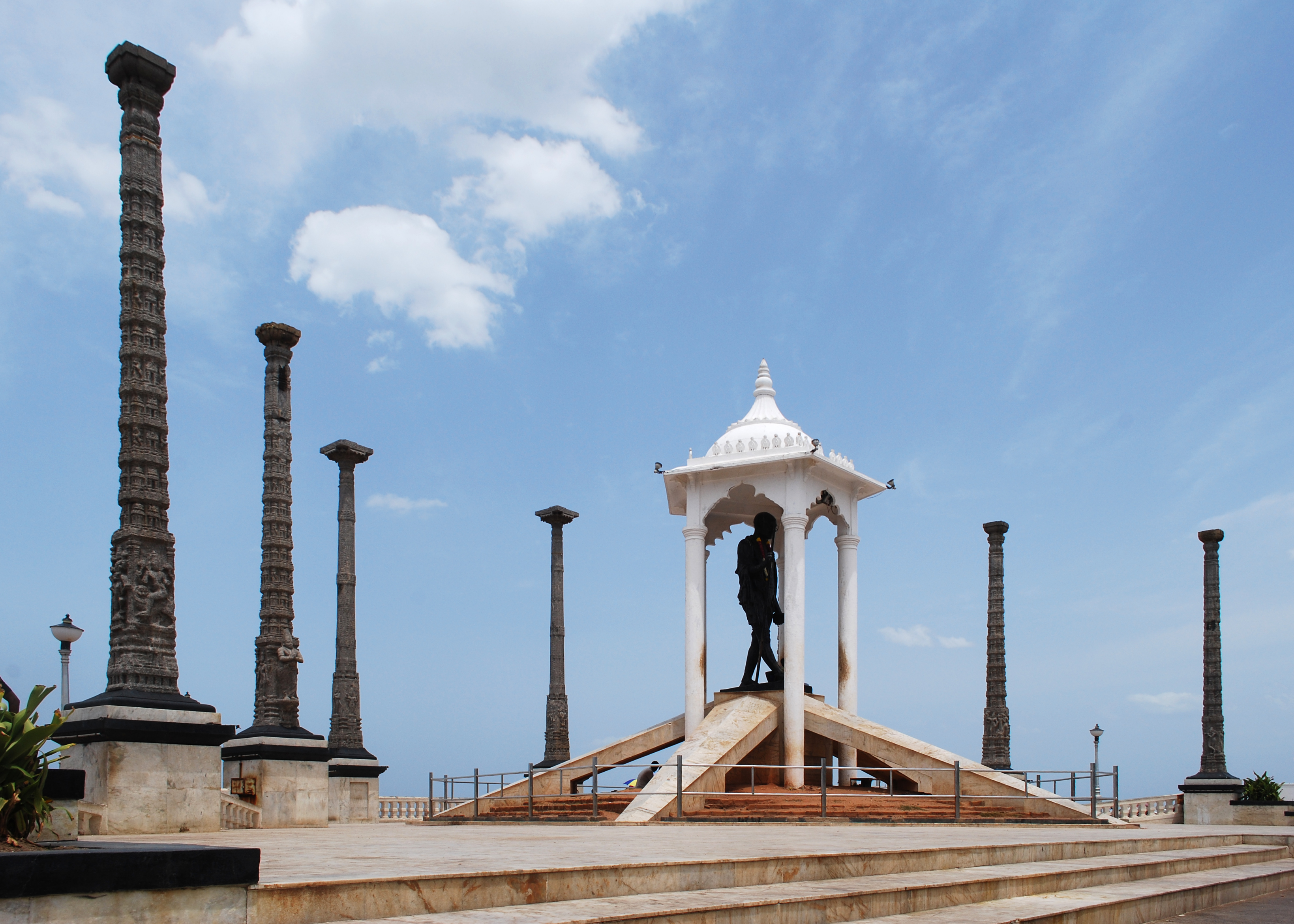 Mahatma Gandhi's Statue on Pondicherry Beach Promenade